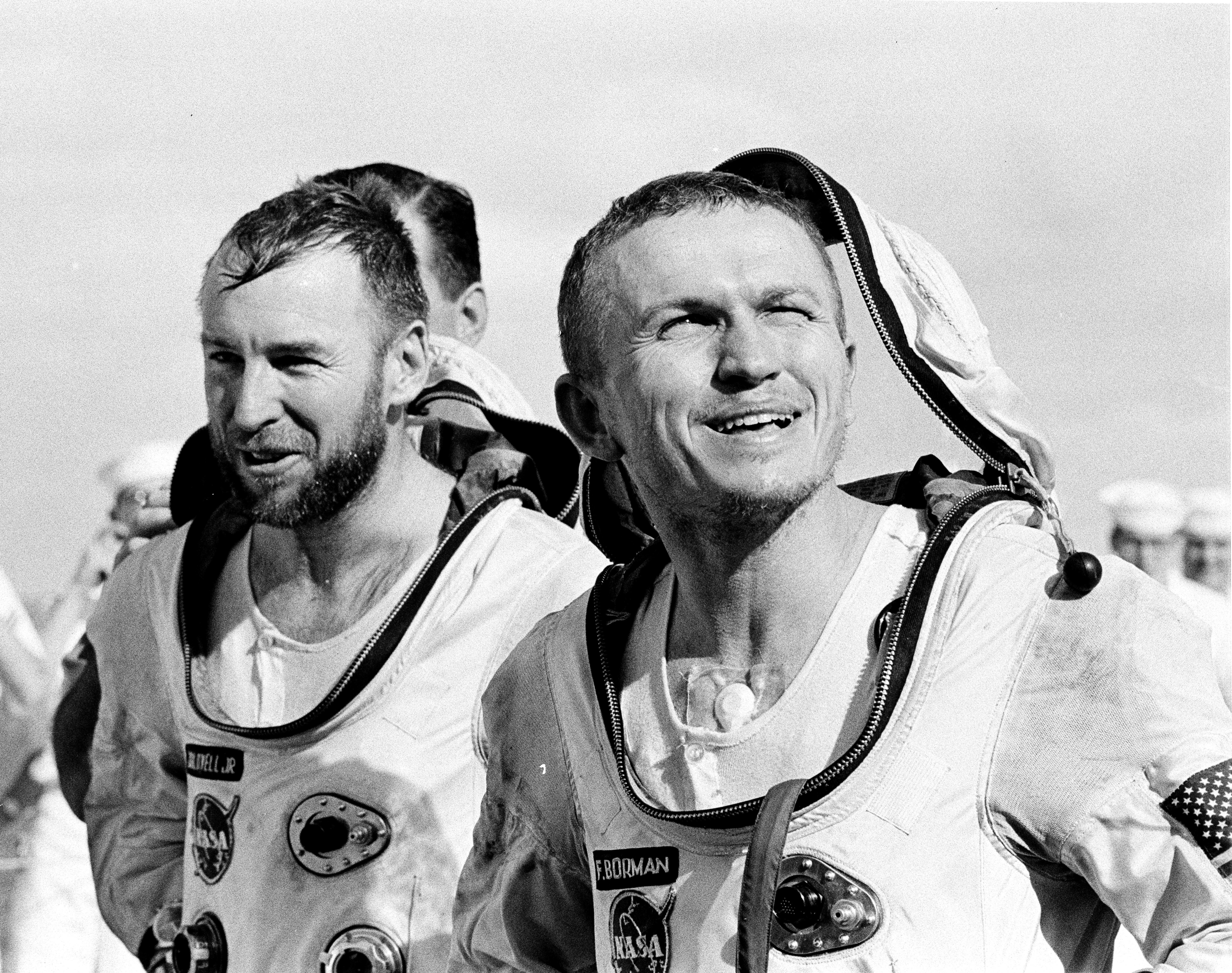 Astronauts Borman (right) and Lovell on the deck of the U.S.S. Wasp after completing their 14-day mission. (NASA Photo No. 65-H-2323, released Dec. 18, 1965.)